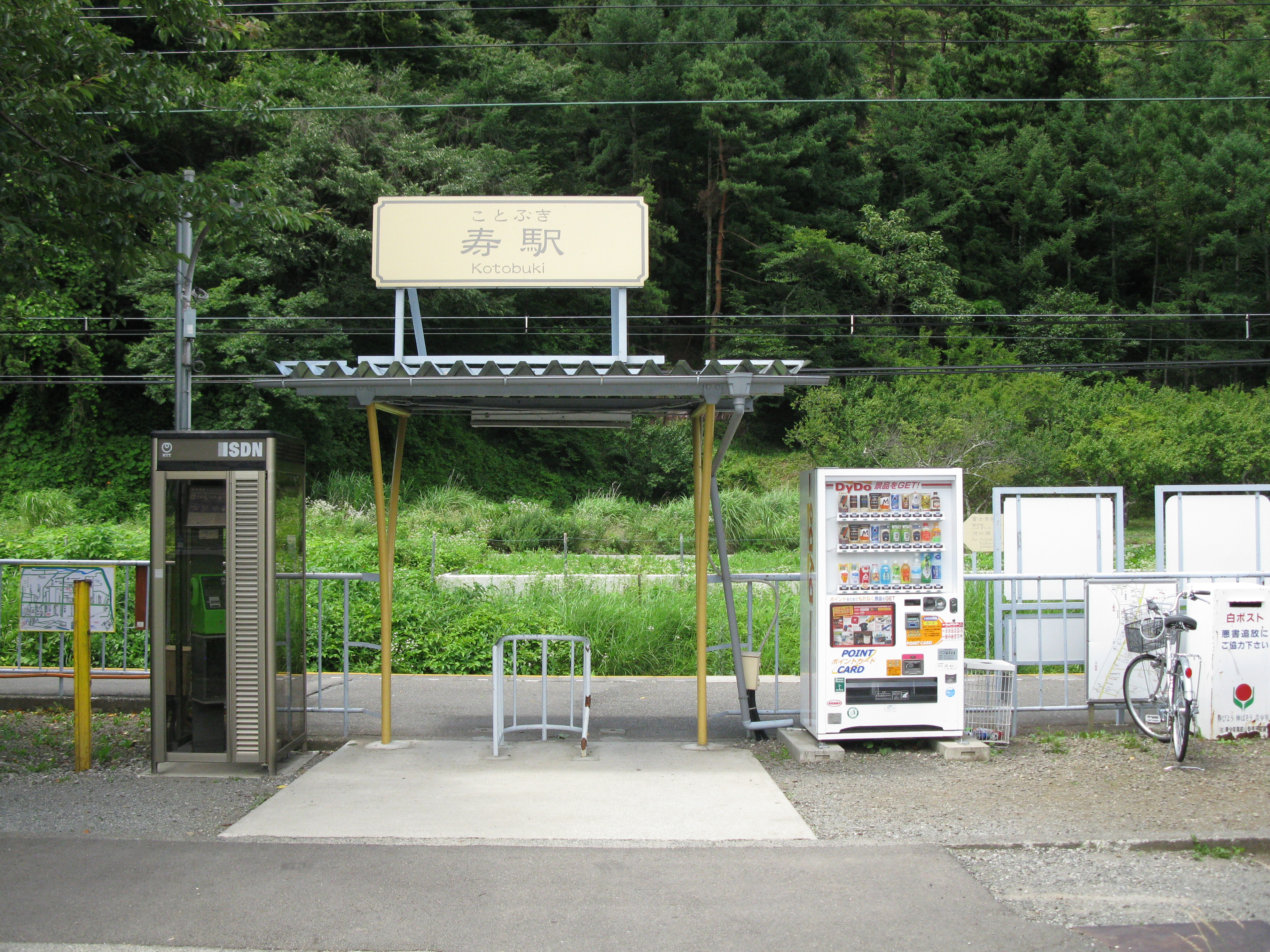 Entrance to Kotobuki Station on the Fujikyuko Line in Yamanashi Prefecture, Japan